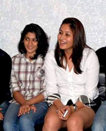 Sushil Kumar, Jwala Gutta, Leander Paes, Sreesanth on the sets of KBC